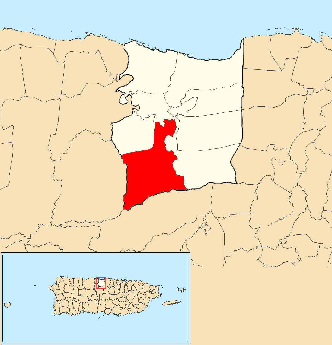 Locator map for barrio in Manatí, Puerto Rico